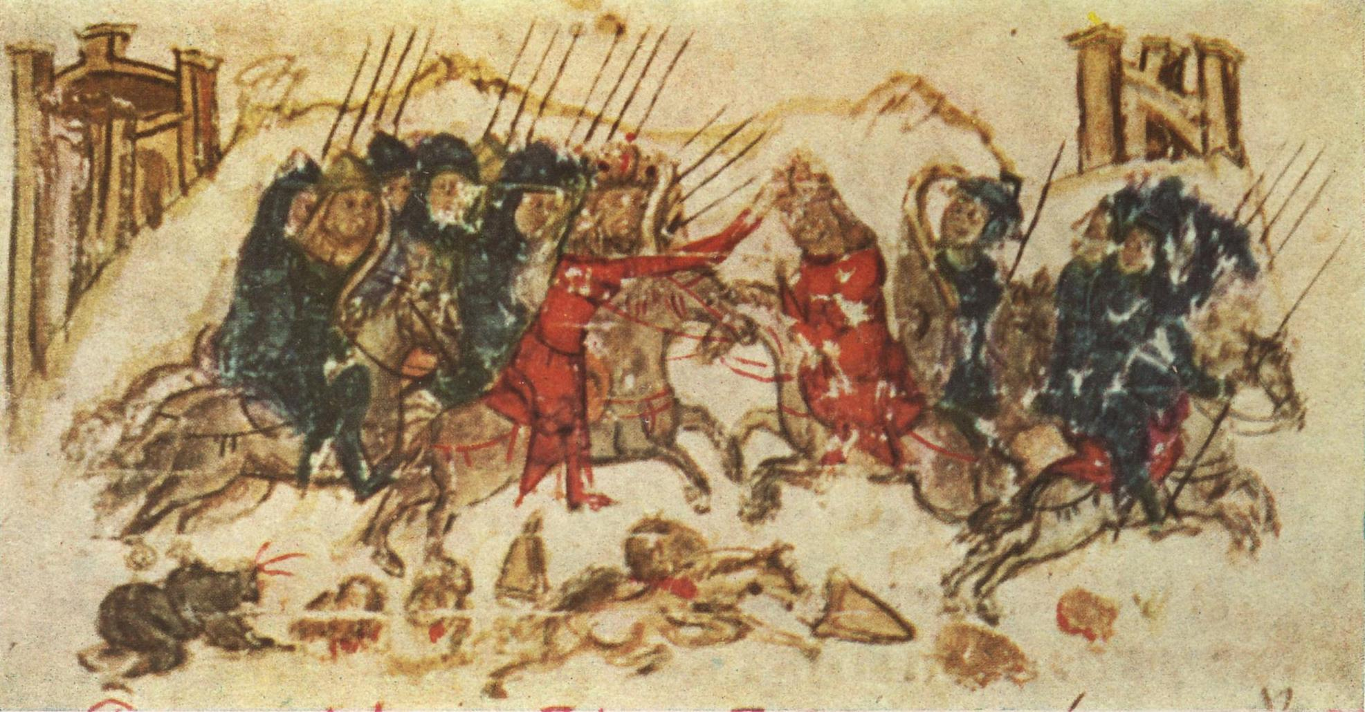 Miniature 55 from the Constantine Manasses Chronicle, 14 century: Emperor Michael II defeats the army of Thomas the Slav.